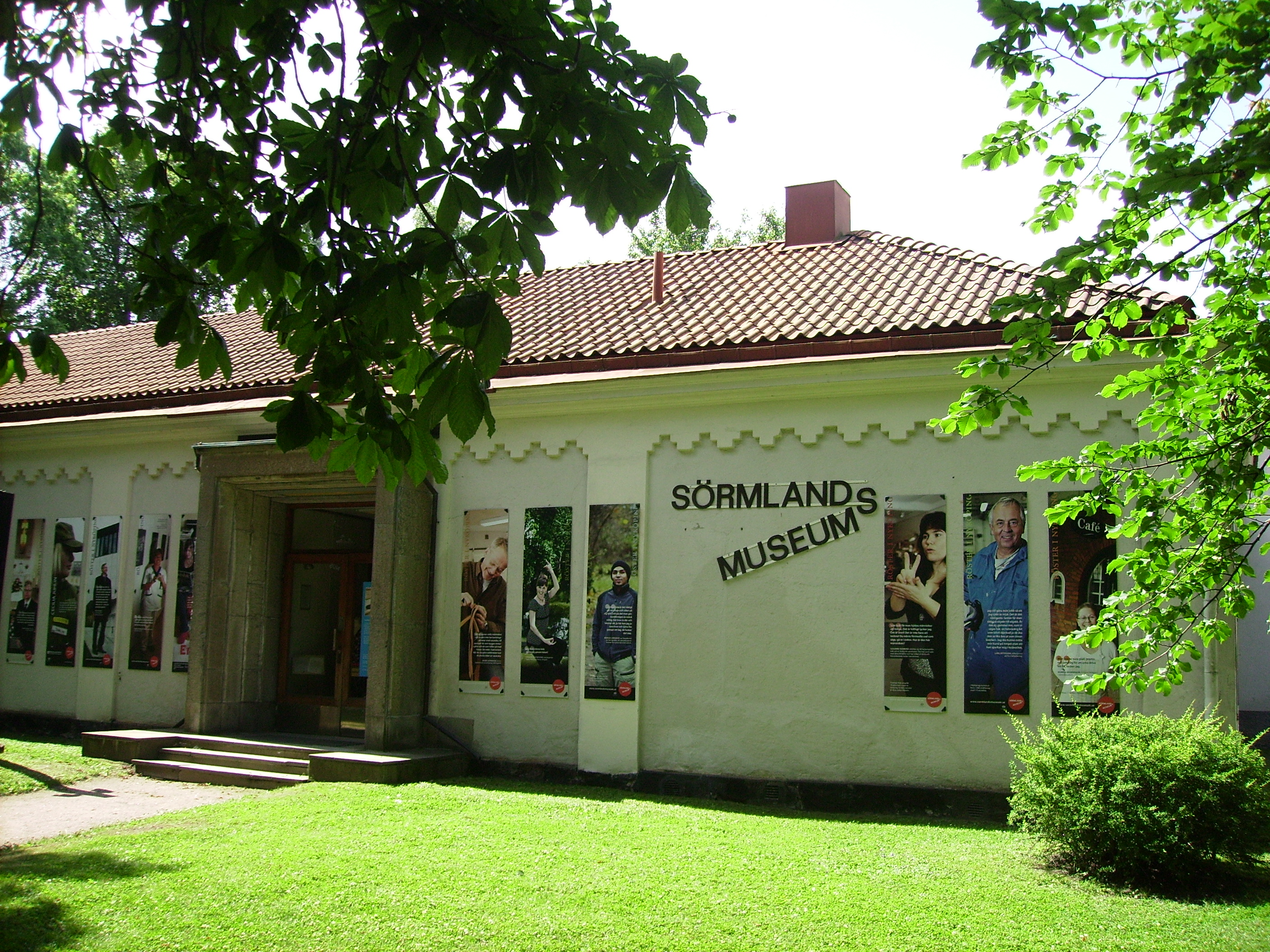 Picture of Sörmlands museum in Nyköping